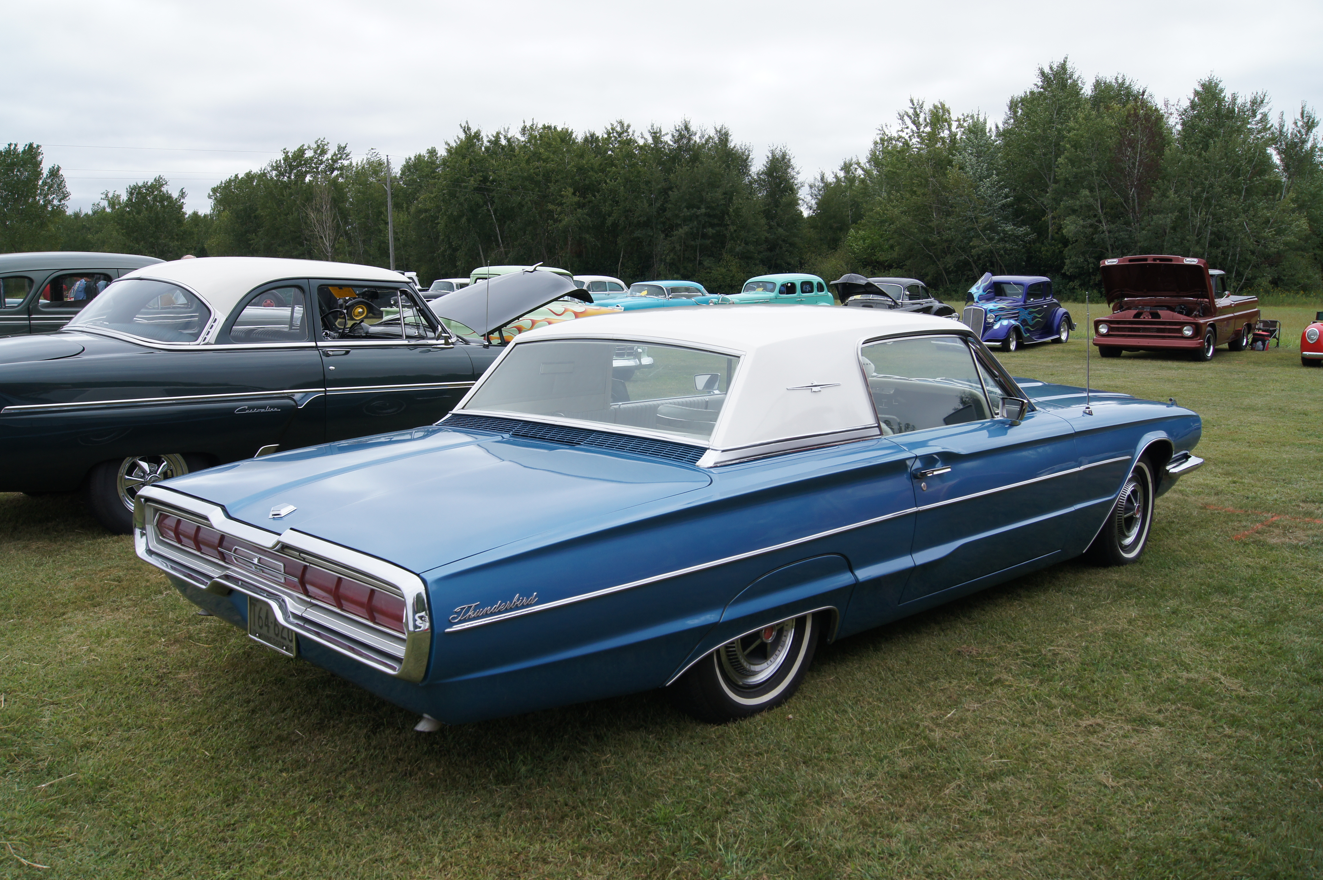 North Star Chapter Studebaker Drivers Club 13th Annual Labor Day Car Show September 2, 2013 Blacksmith Lounge Hugo, MN More Car Pictures